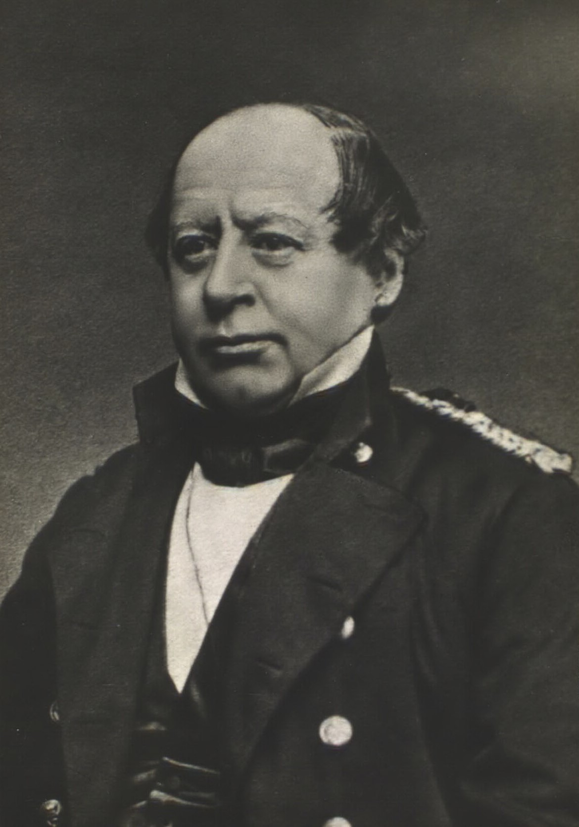 Otto Hans Lütken (1813-1883), Minister and Commander of the Royal Danish Navy, member of the Danish Folketing